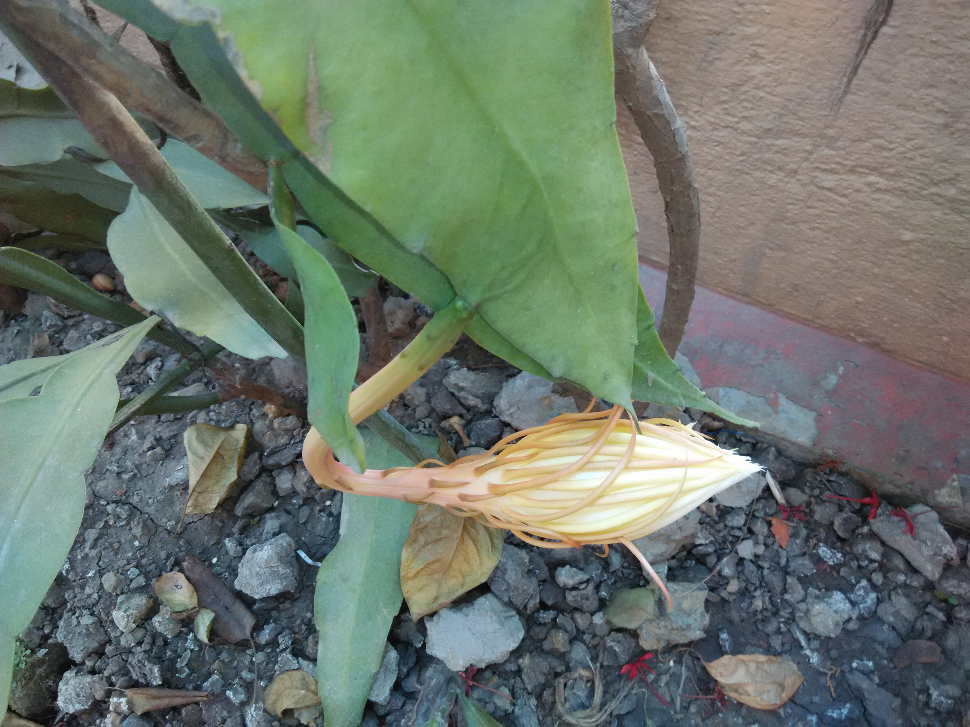 Night-blooming cereus before full boom at Sakherbazar, Kolkata